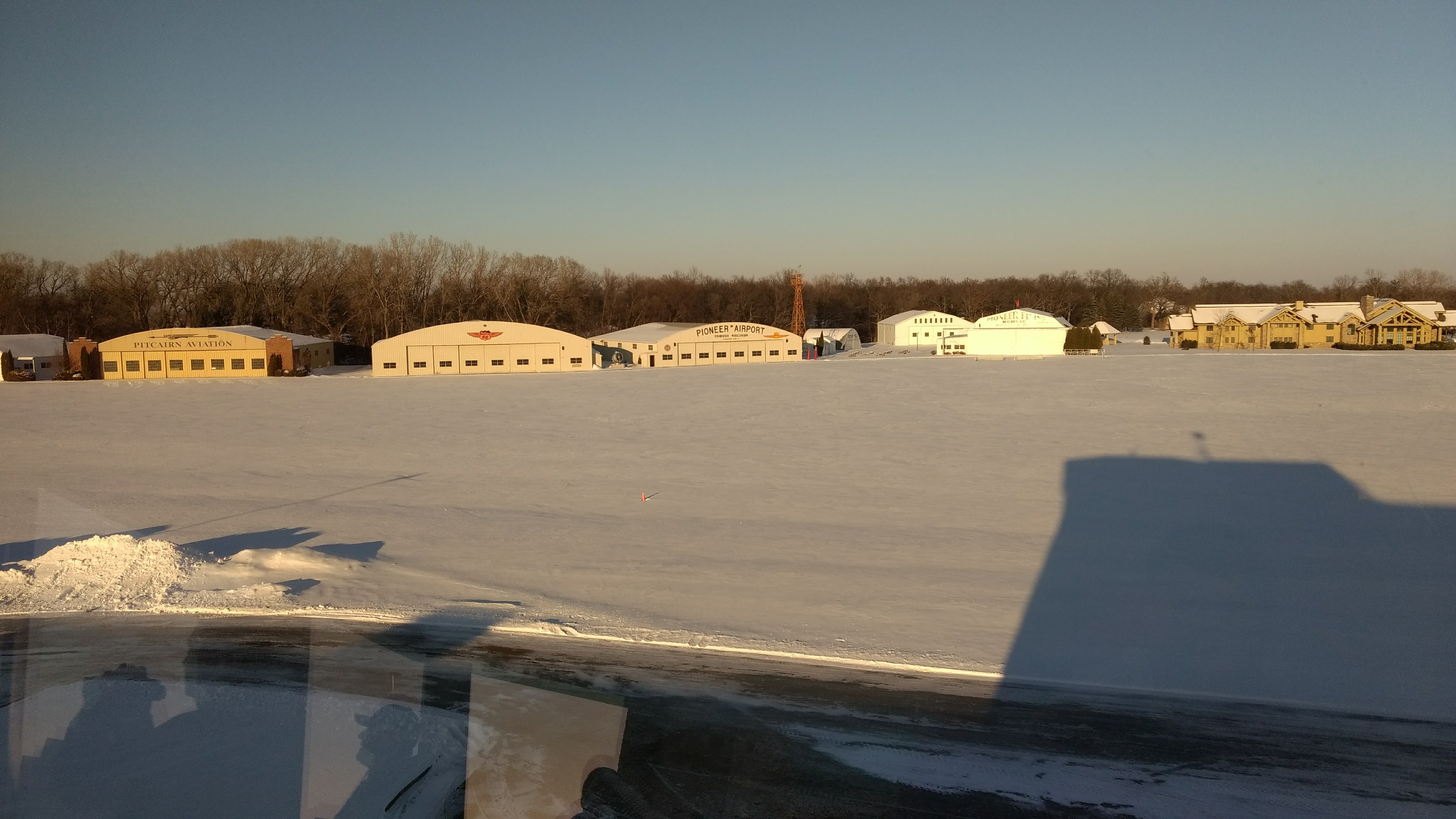 EAA Aviation Museum's Pioneer Airport during the winter